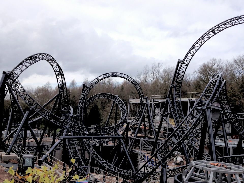 Image of the batwing/cobra roll on The Smiler as it was on the 16th March 2013.